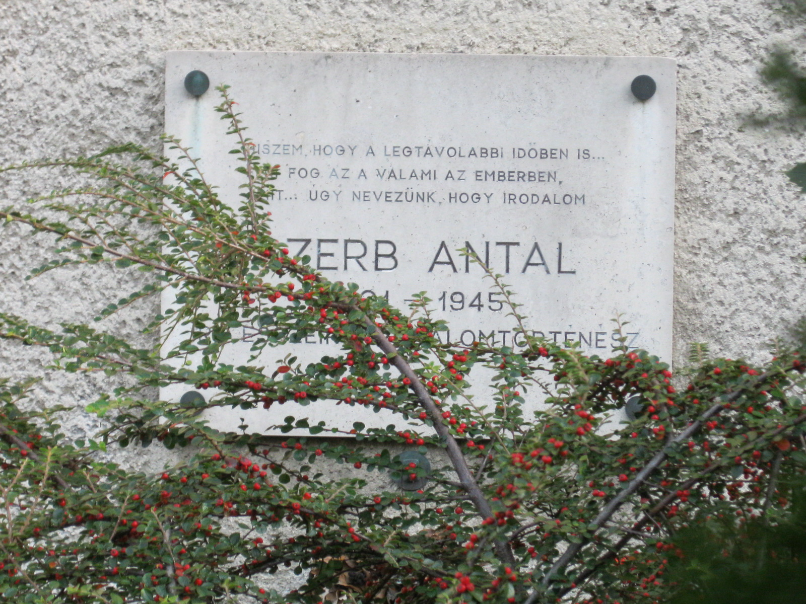 Antal Szerb commemorative plaque in Budapest District II, Szerb Antal Street No 10.